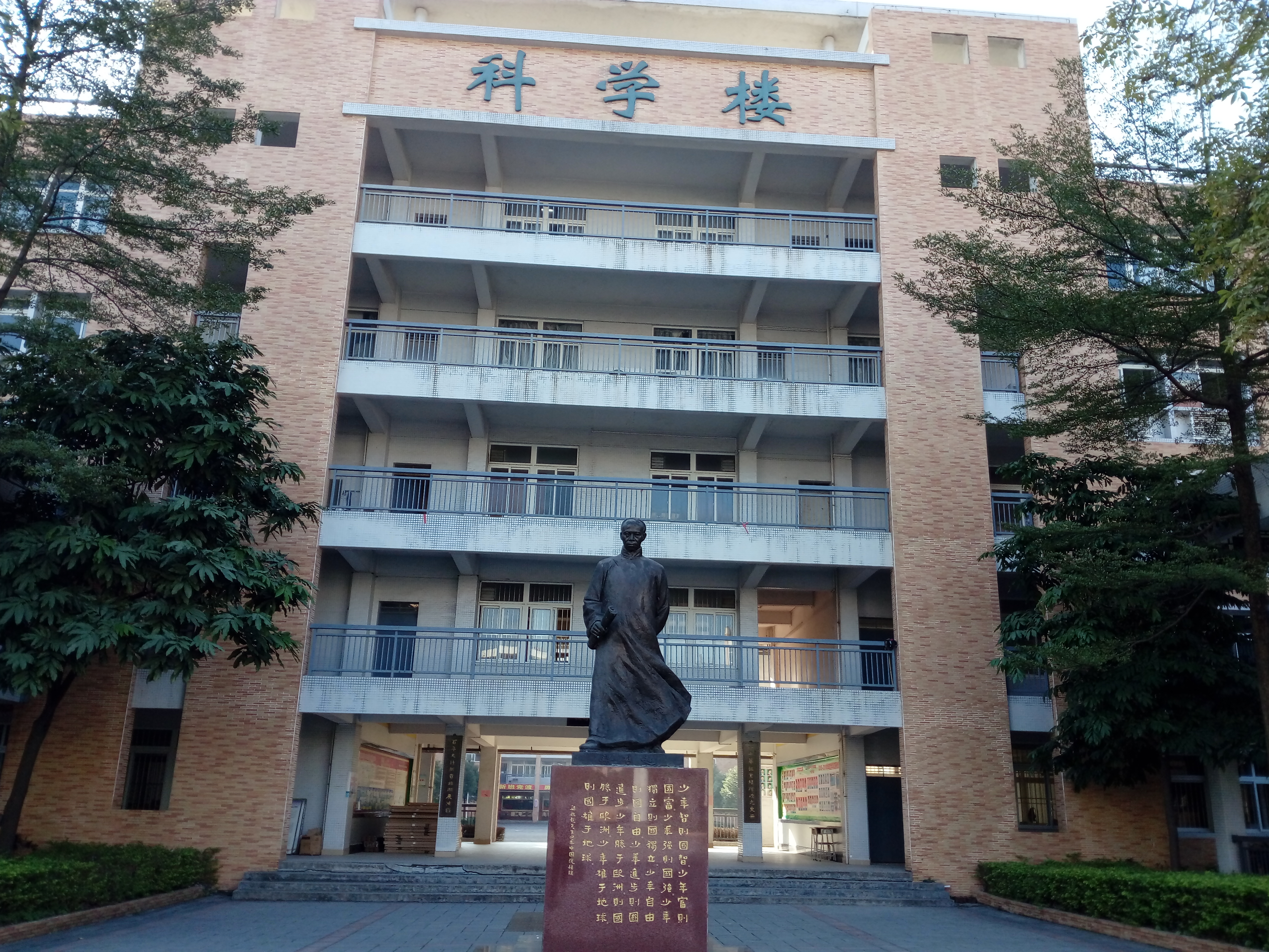 Science Building of JMYZ is next to the library, there is the statue of Liangqichao in front of it.